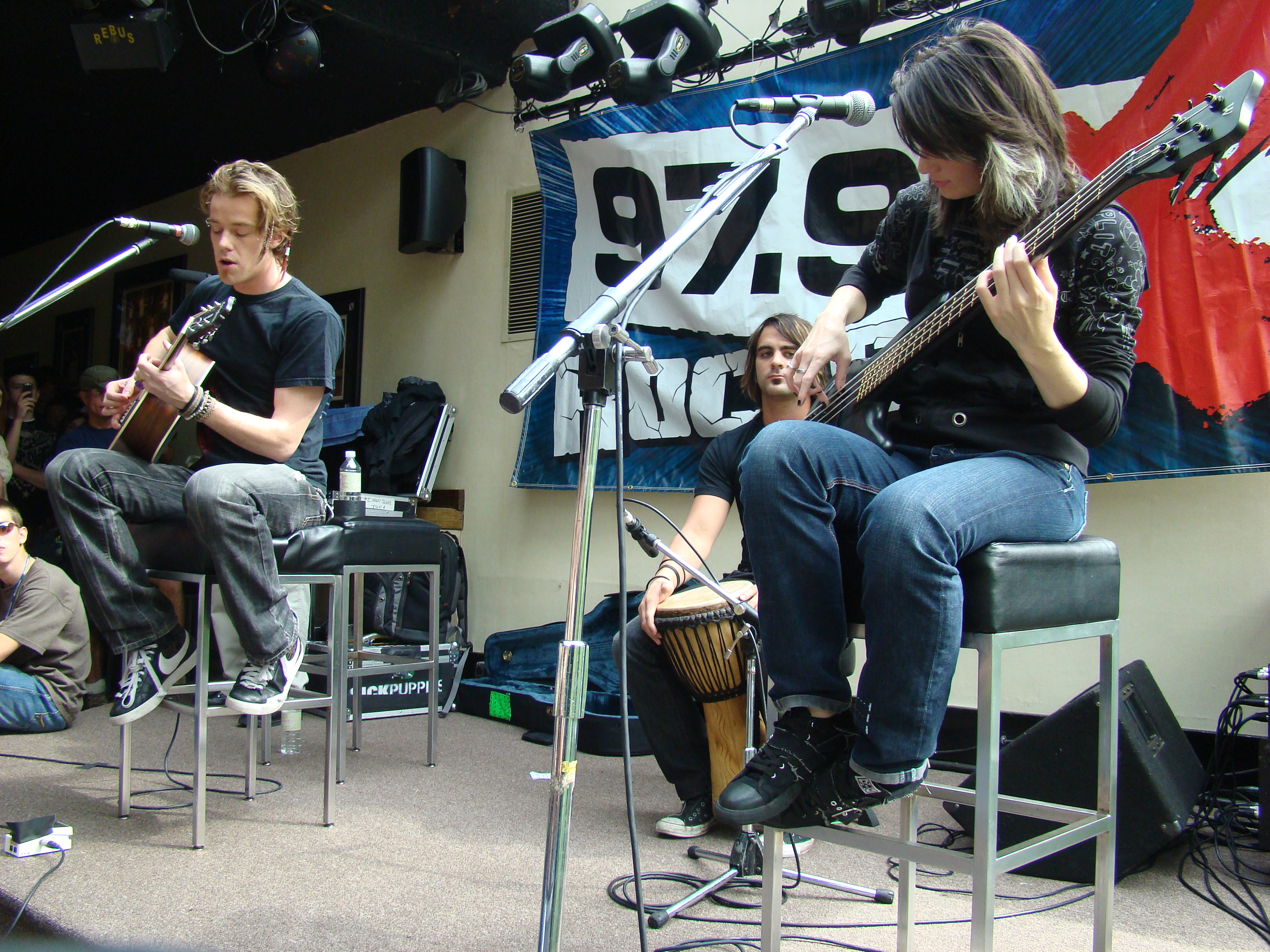 Sick Puppies performing for WBSX at the Woodlands Inn and Resort in Wilkes-Barre